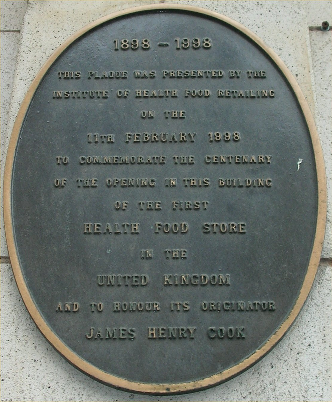 Plaque to James Henry Cook, celebrating his creation of the first health food store (later a vegetarian restaurant, and now the The Pitman Vegetarian Hotel) in the UK. It is in Corporation Street, Birmingham. Photographed by me, 6 July 2006. Oosoom